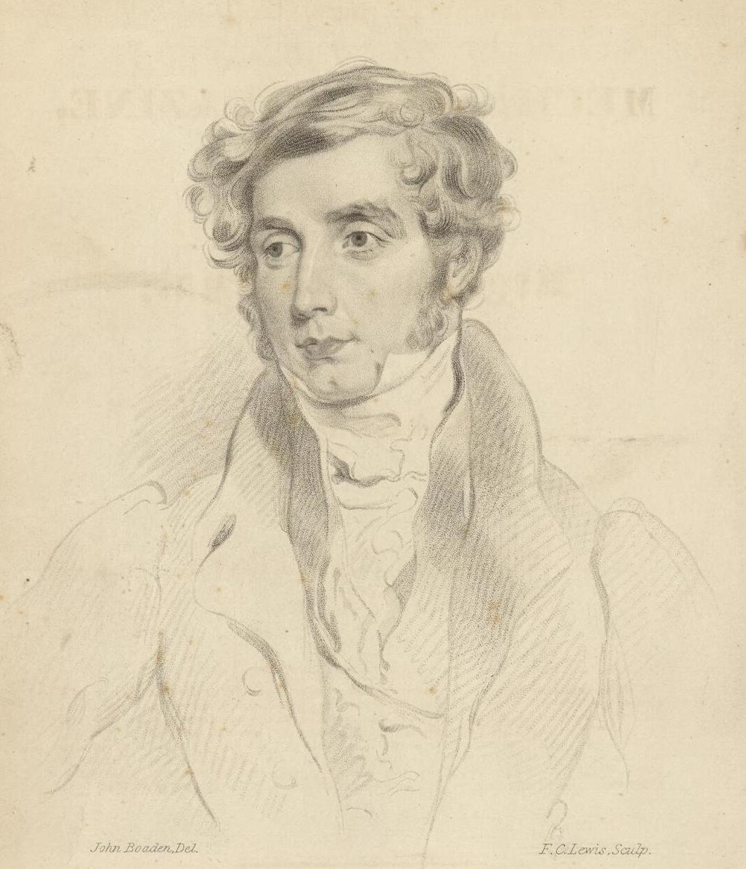 A portrait from the Welsh Portrait Collection at the National Library of Wales. Depicted person: John Braithwaite – English engineer (1797–1870)